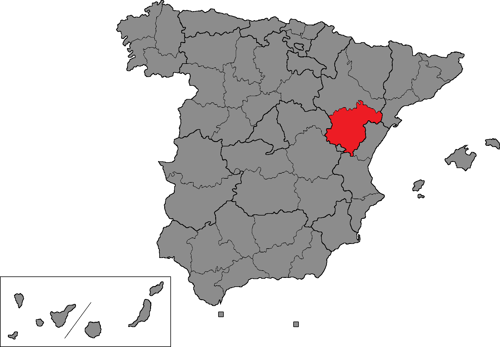 Spanish Congress of Deputies district of Teruel.